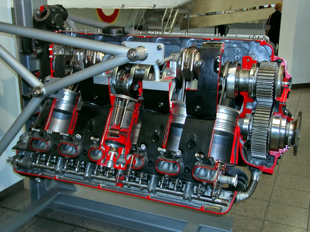 Daimler-Benz DB 601 A - aviation motor